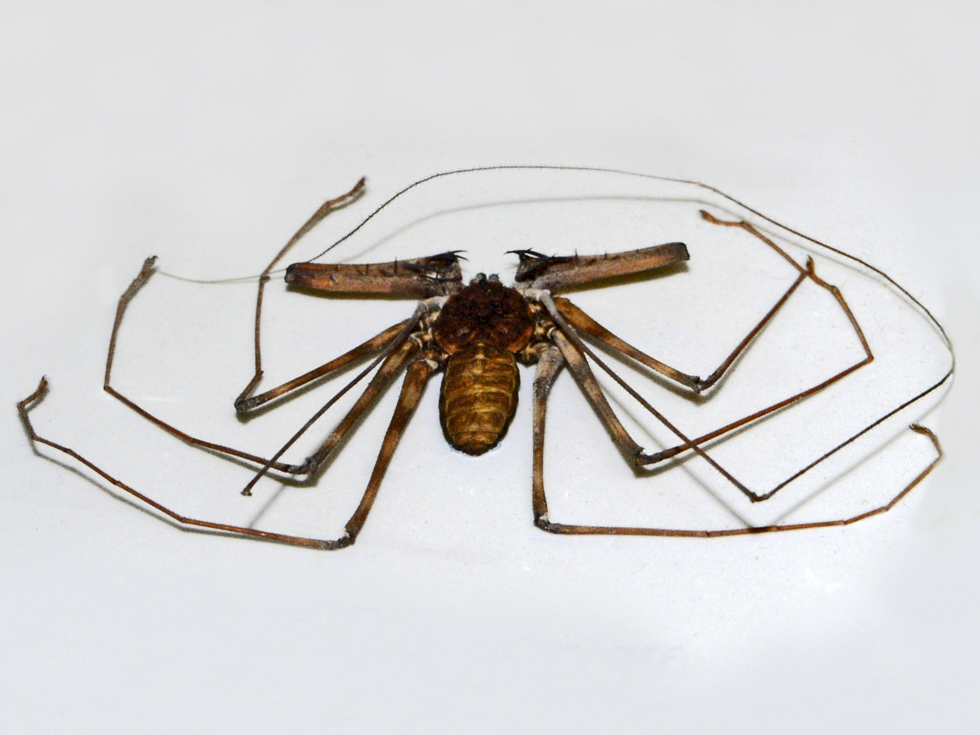 Charon grayi from Celebes on display at the Museo Civico di Storia Naturale di Milano